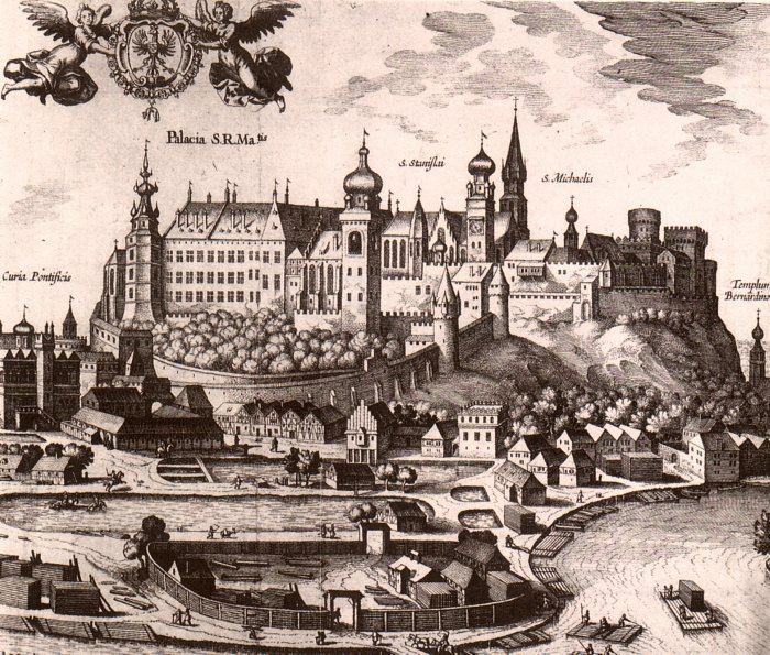 View of Wawel near the end of the 16th century.